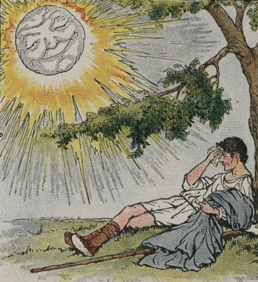 The North Wind and the Sun - The sun strips the traveler of his cloak From The Æsop for Children, by Æsop, illustrated by Milo Winter